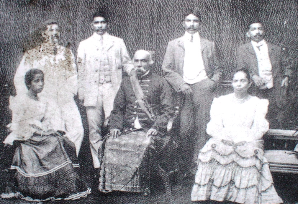 Persons, seat L to R; Maria Frances Dias Bandaranaike nee Senanayake, Mudaliyar Don Spater Senanayake, Dona Catherina Elizabeth Perera Gunasekera Senanayake. Standing L to R; F.H. Dias-Bandaranaike, D. S. Senanayake, F. R. Senanayake and D. C. Senanayake.